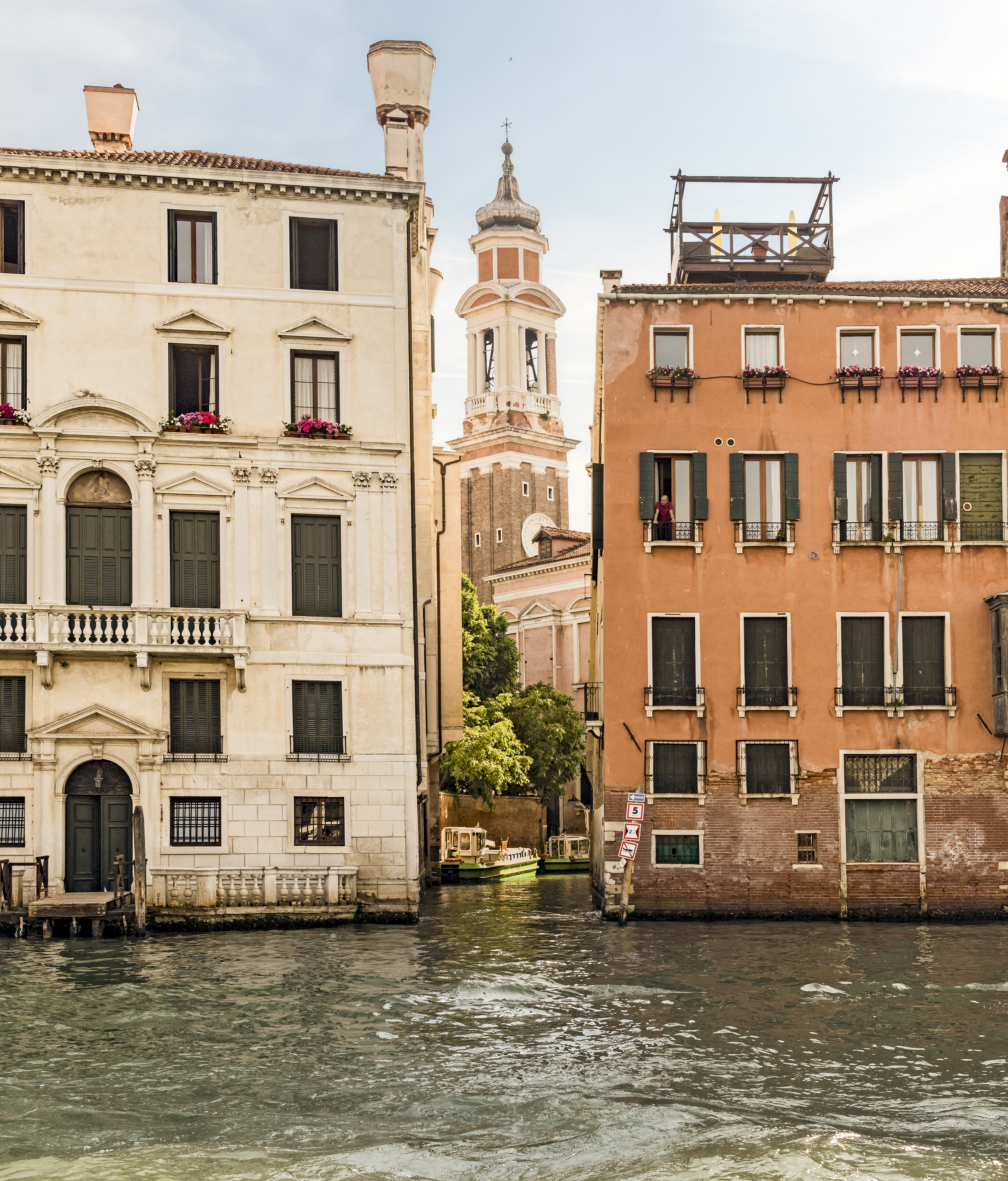 Opening of the Rio dei Santi Apostoli on the Grand Canal Cannaregio Venice.